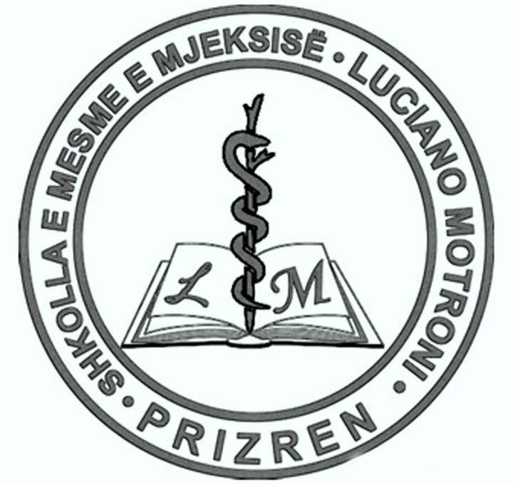 The high medical school "Luciano Motoroni logo"